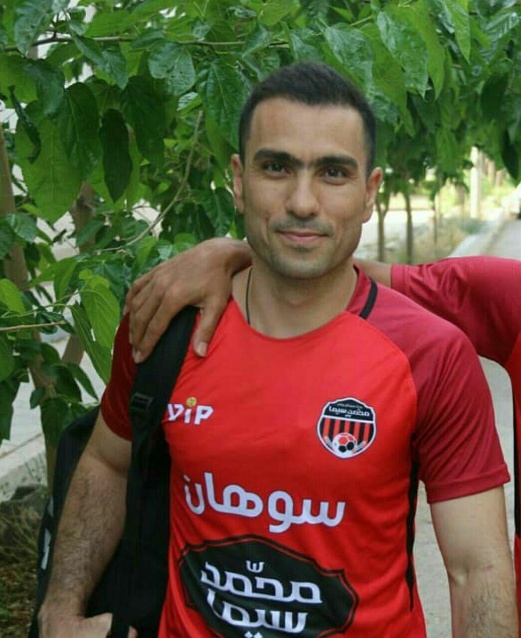 Mehdi Hassanzadeh